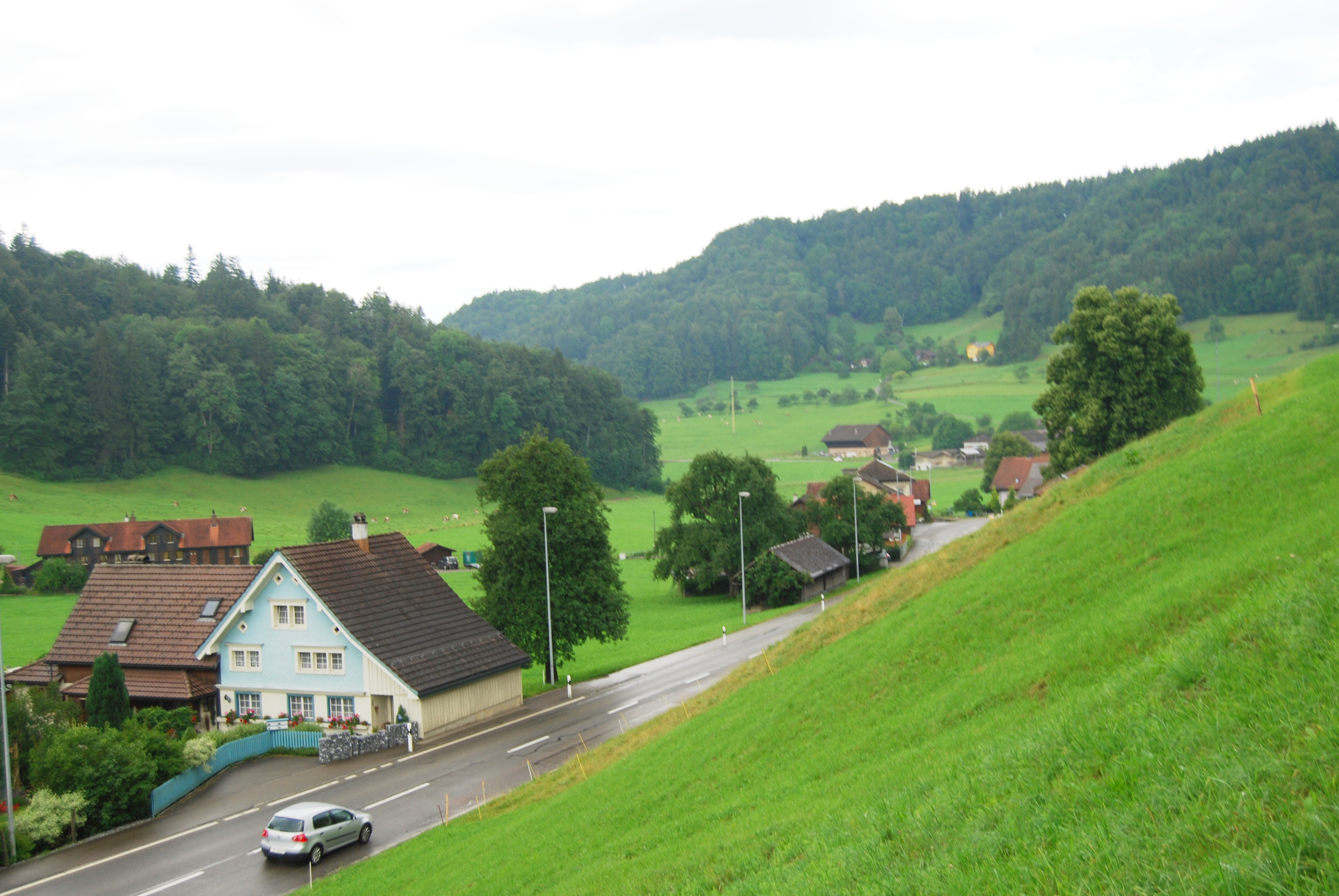 Oberrindal, municipality of Lütisburg, canton of St. Gallen, SwitzerlandEsperanto: Oberrindal, komunumo Lütisburg, Kantono Sankt-Galo, Svislando